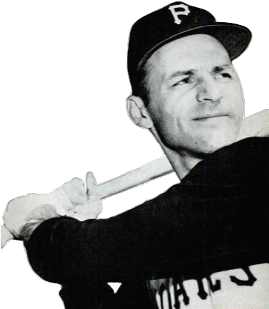 Pittsburgh Pirates shortstop Dick Groat in a 1960 issue of Baseball Digest.